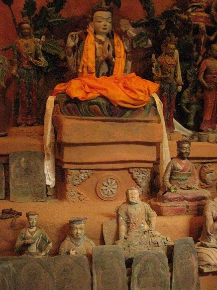 photo - chhairo gompa, lhakang buddha, Chhairo, lower Mustang, nepal